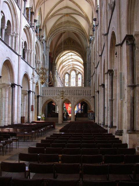 Chichester Cathedral interior The John Piper tapestry can be glimpsed through the screen